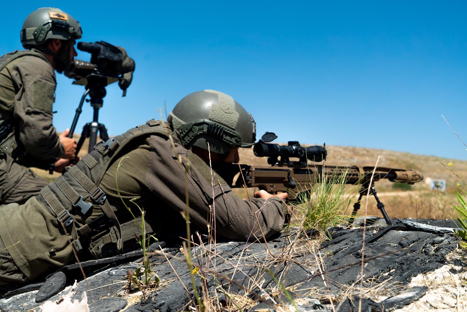 Israel Defense Forces counter-terrorism sniper shooting the Barrett MRAD during sniping competition, 2019